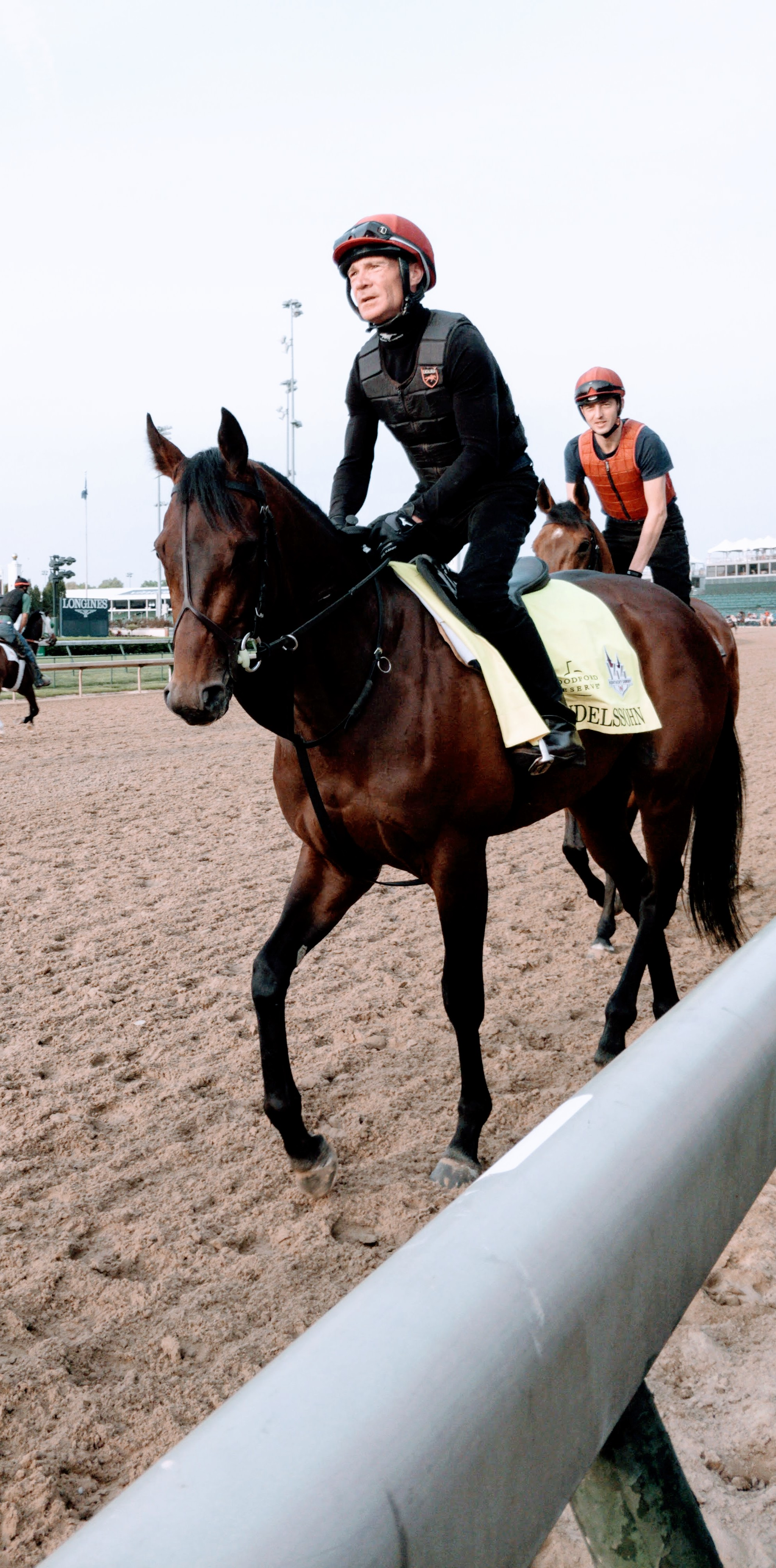 Pre kentucky Derby Workout - Mendelssohn Feel free to use this photo however you like, just attribute . Thanks!